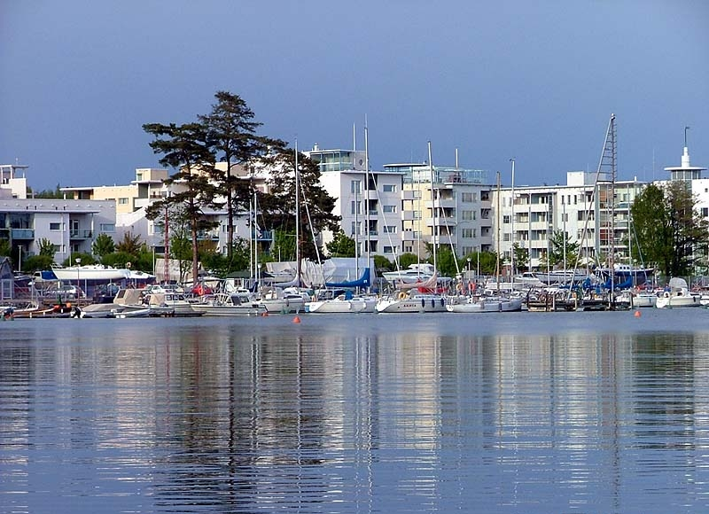 Apartment buildings and a small boat harbour in Kallahti in the district of Vuosaari, Helsinki, Finland. Photographed by Jonik in May, 2004.